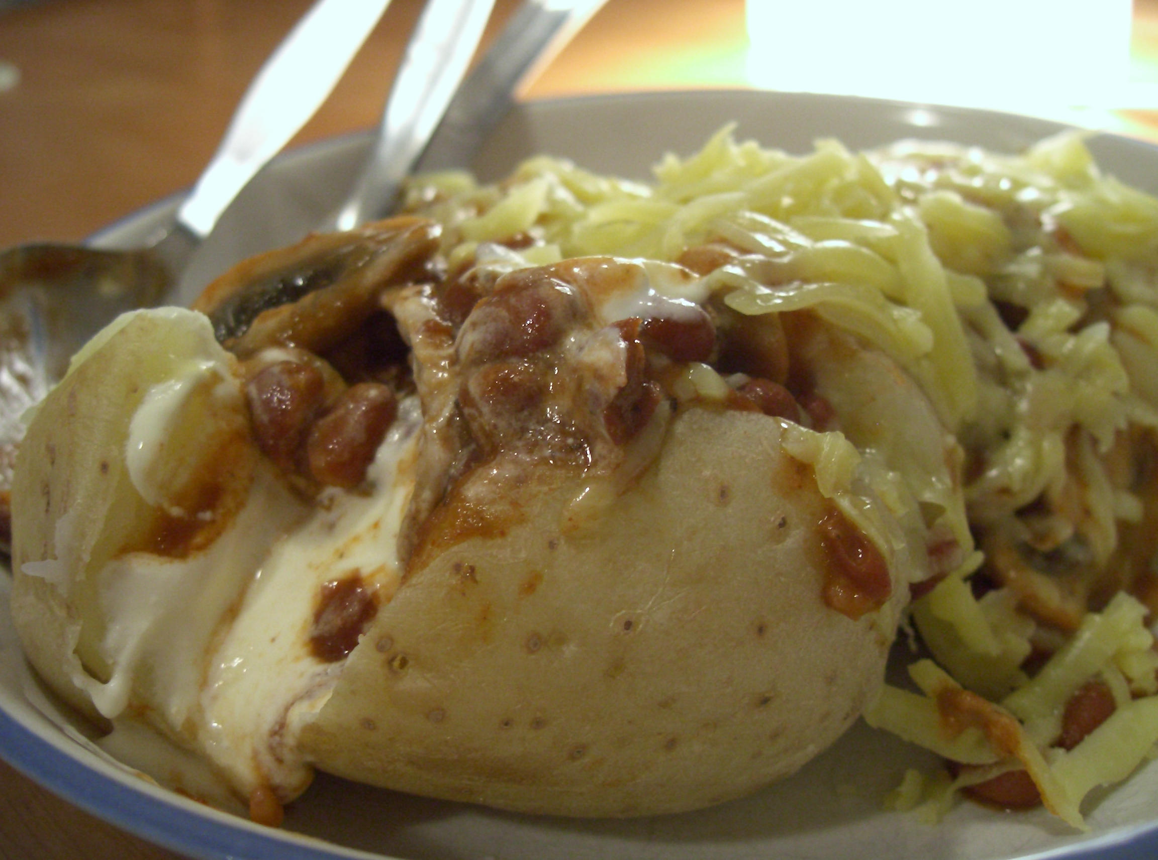 Microwaved potatoes (they can also be baked in foil over a fire or in the oven), with toppings: sour cream (partly melted at the front), spicy Mexican beans, mushrooms and grated cheese.